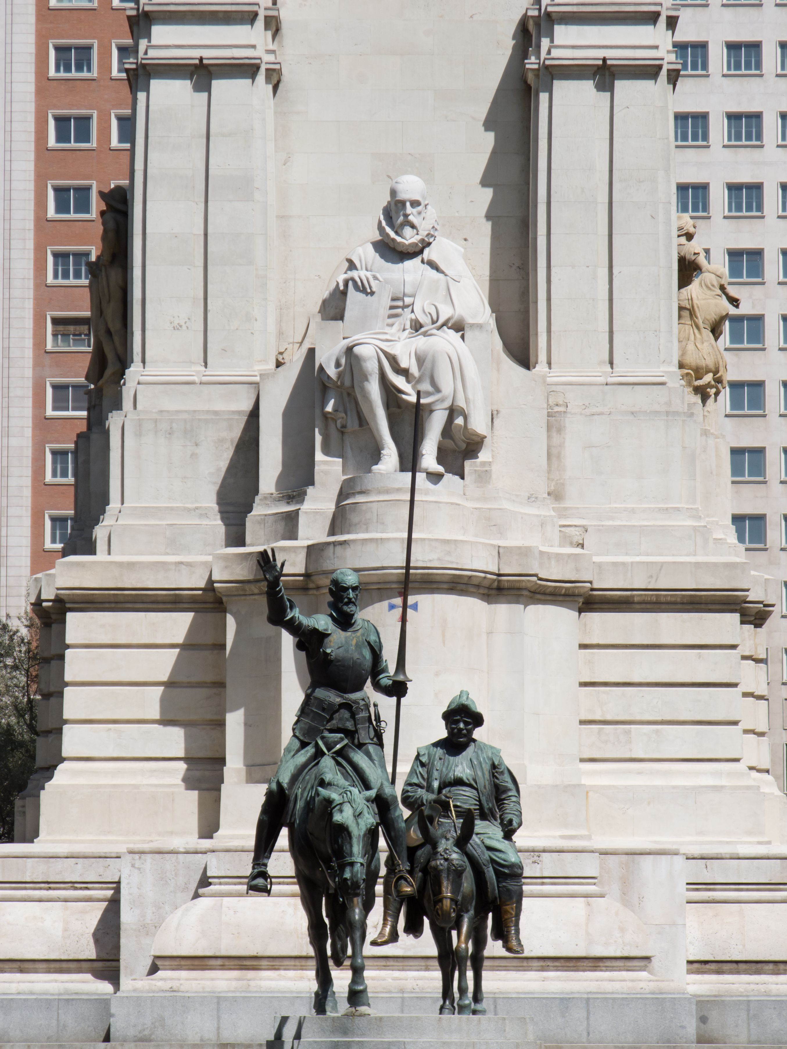 Monument to Miguel de Cervantes, Madrid, Spain.